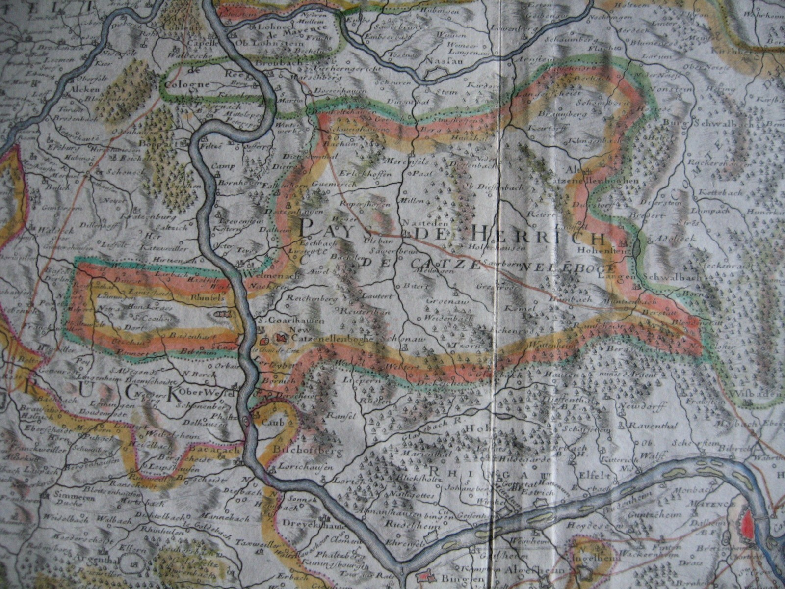 Cropped from a map of the Rhineland by Guillaume de l'Isle printed in 1704